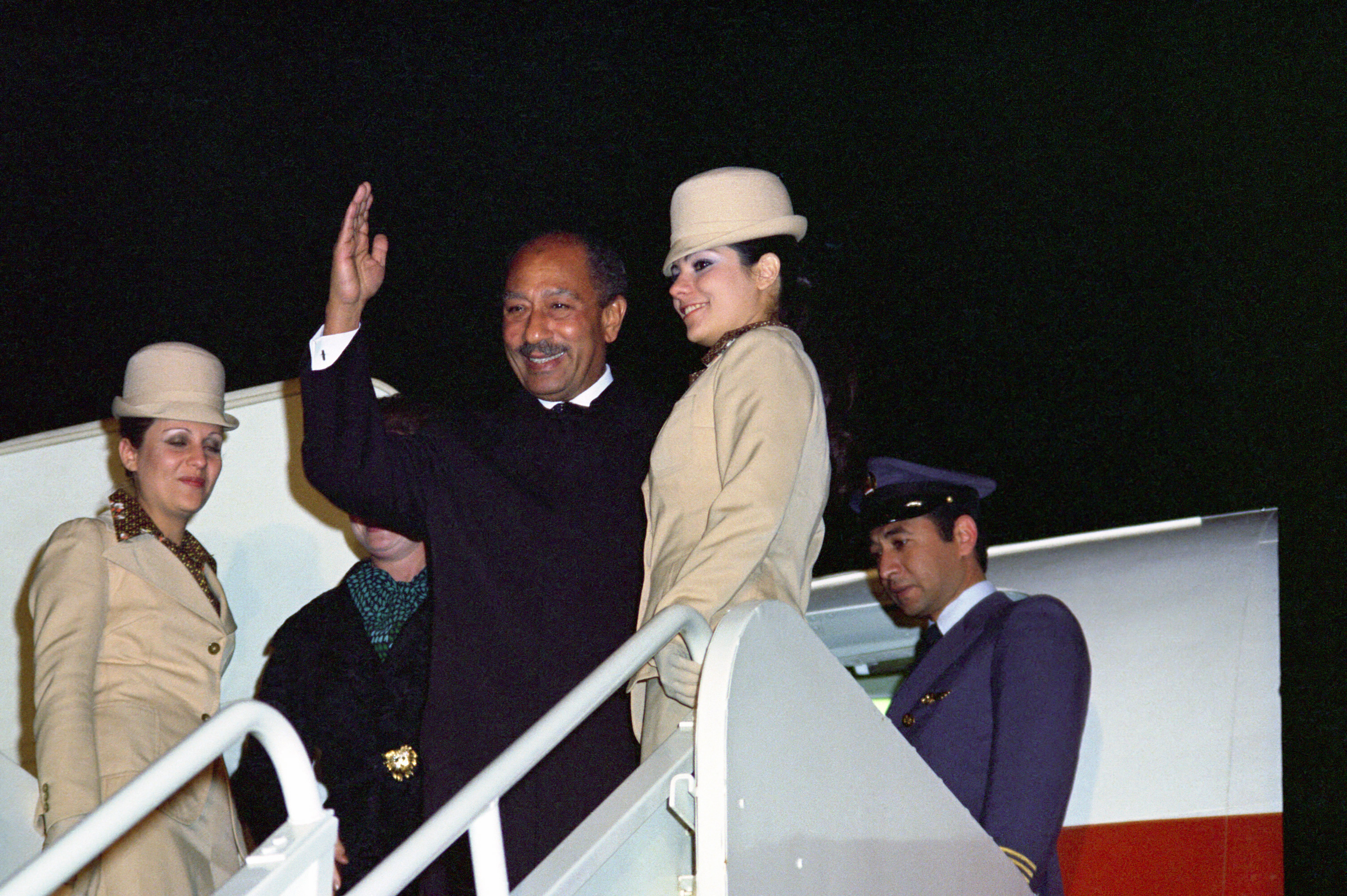 Egyptian President Anwar el-Sadat waves as he departs from a state visit to the US.